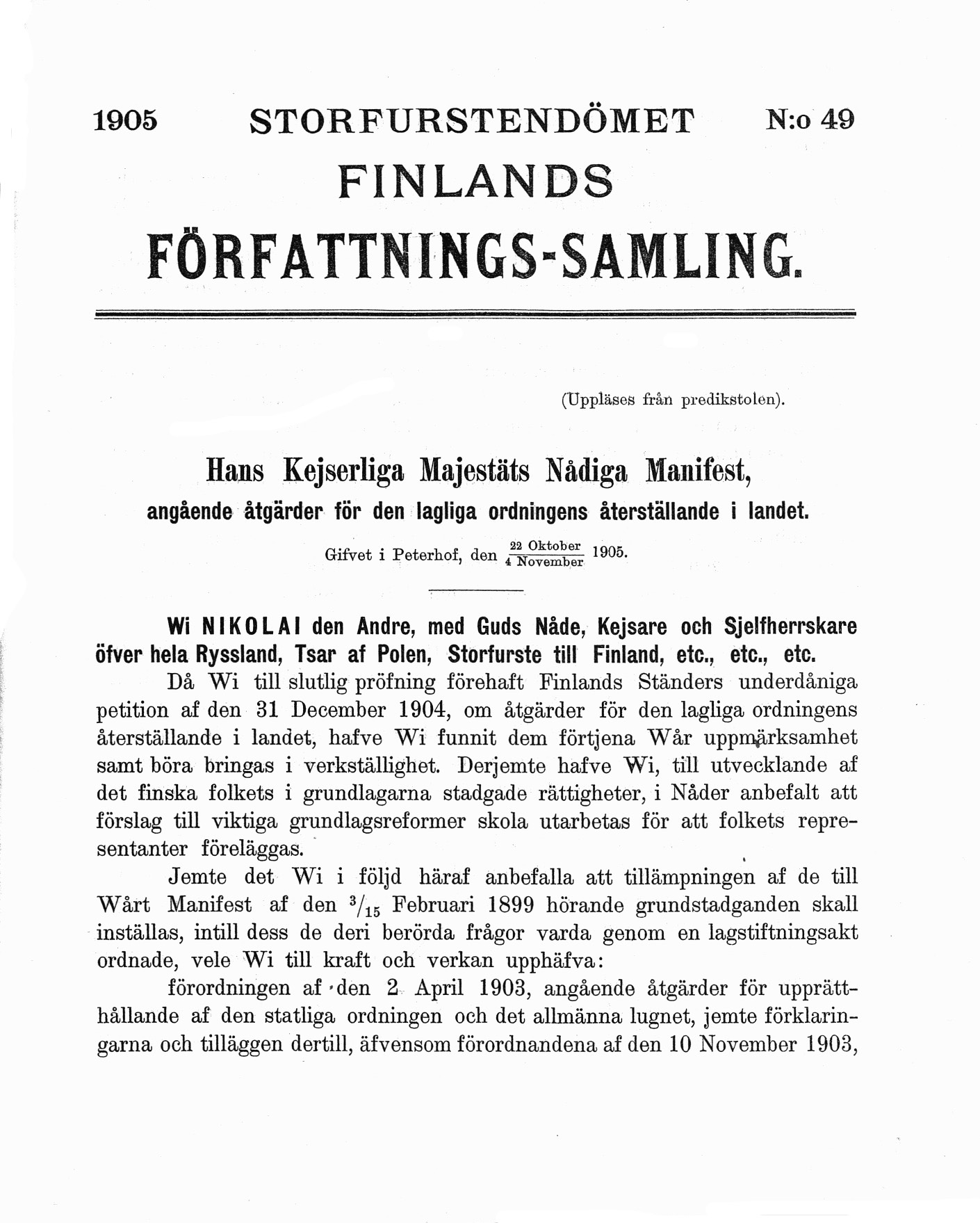 The so-called November Manifesto of 1905 (in Swedish language) from the Russian Emperor concerning legislation in Finland.